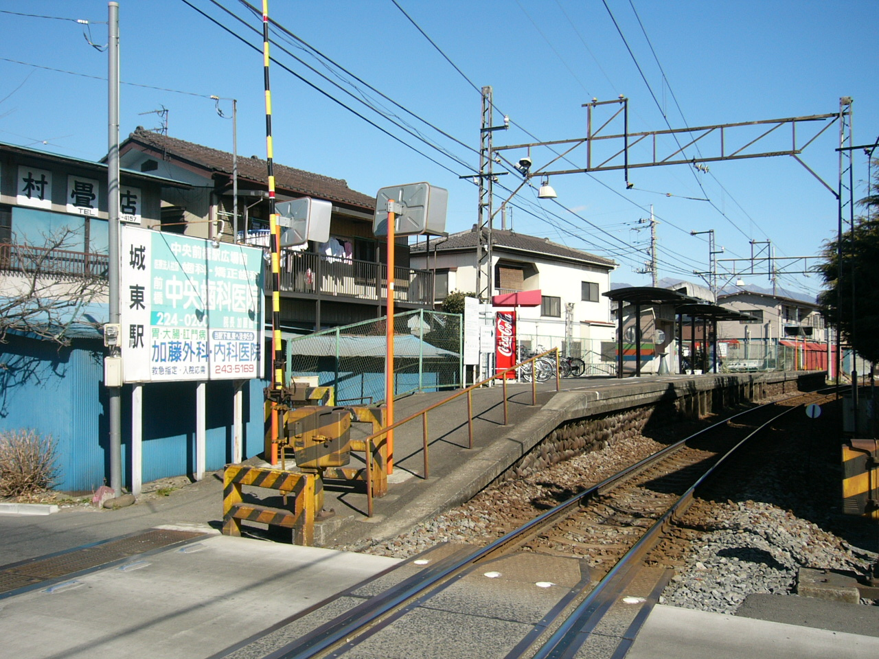 Joto Station